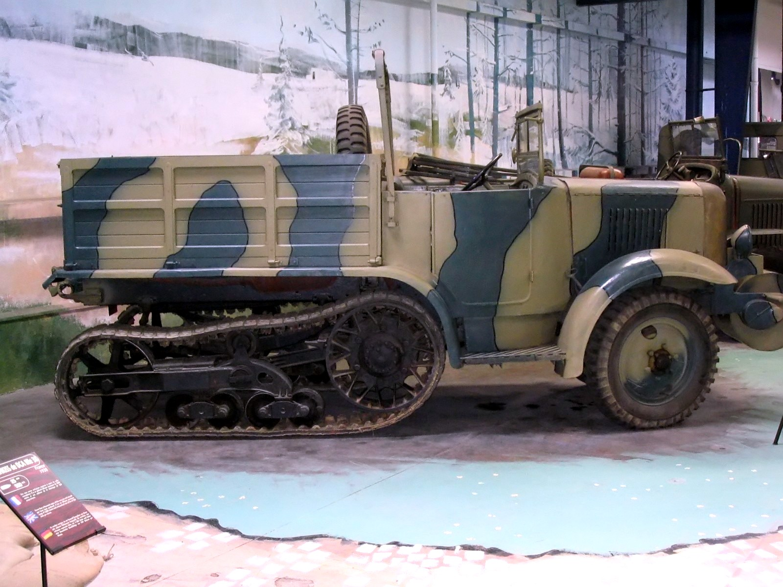 The Unic P107 at Saumur museum